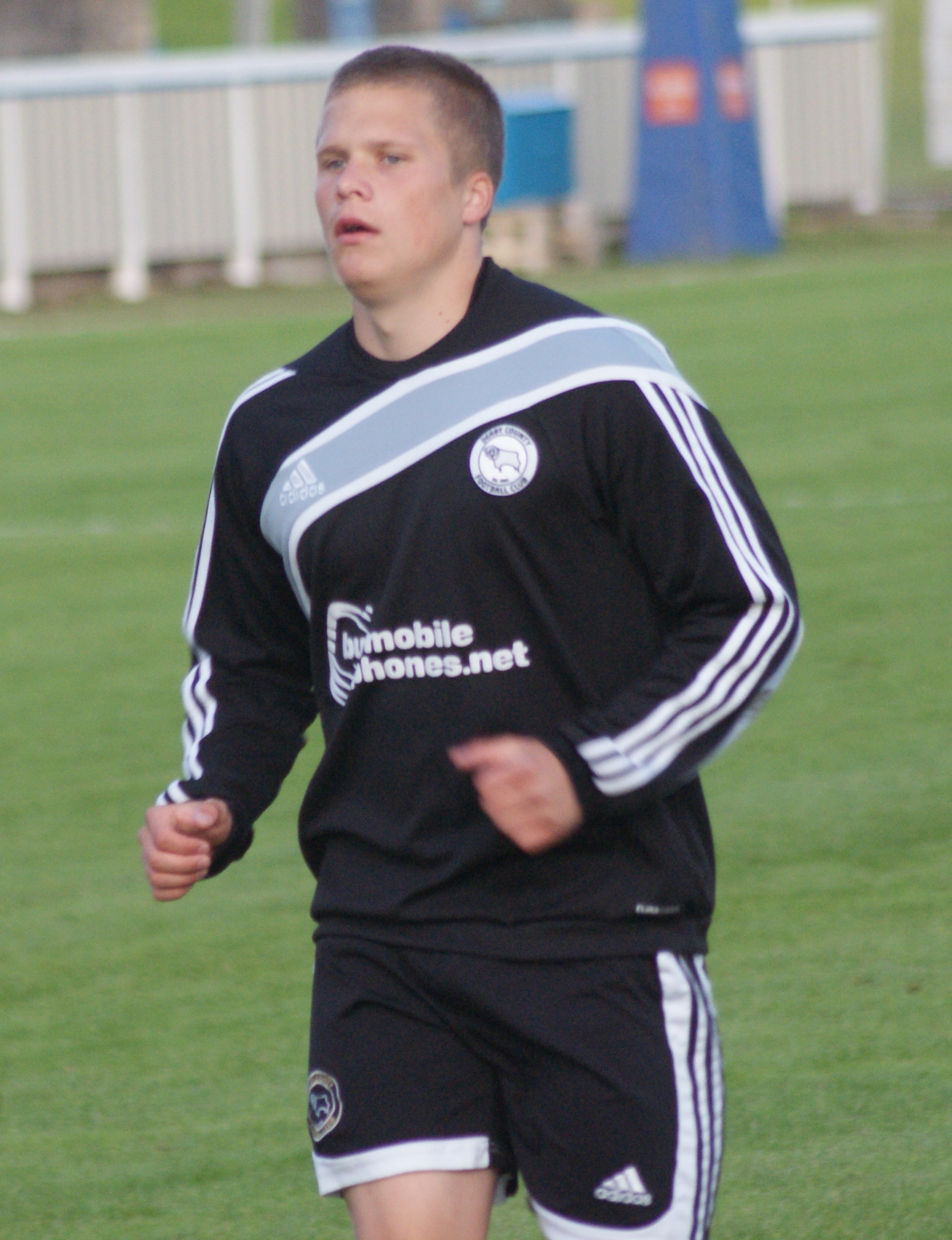 Henrik Ojamaa, Matlock Town vs Derby County 27-07-09 148